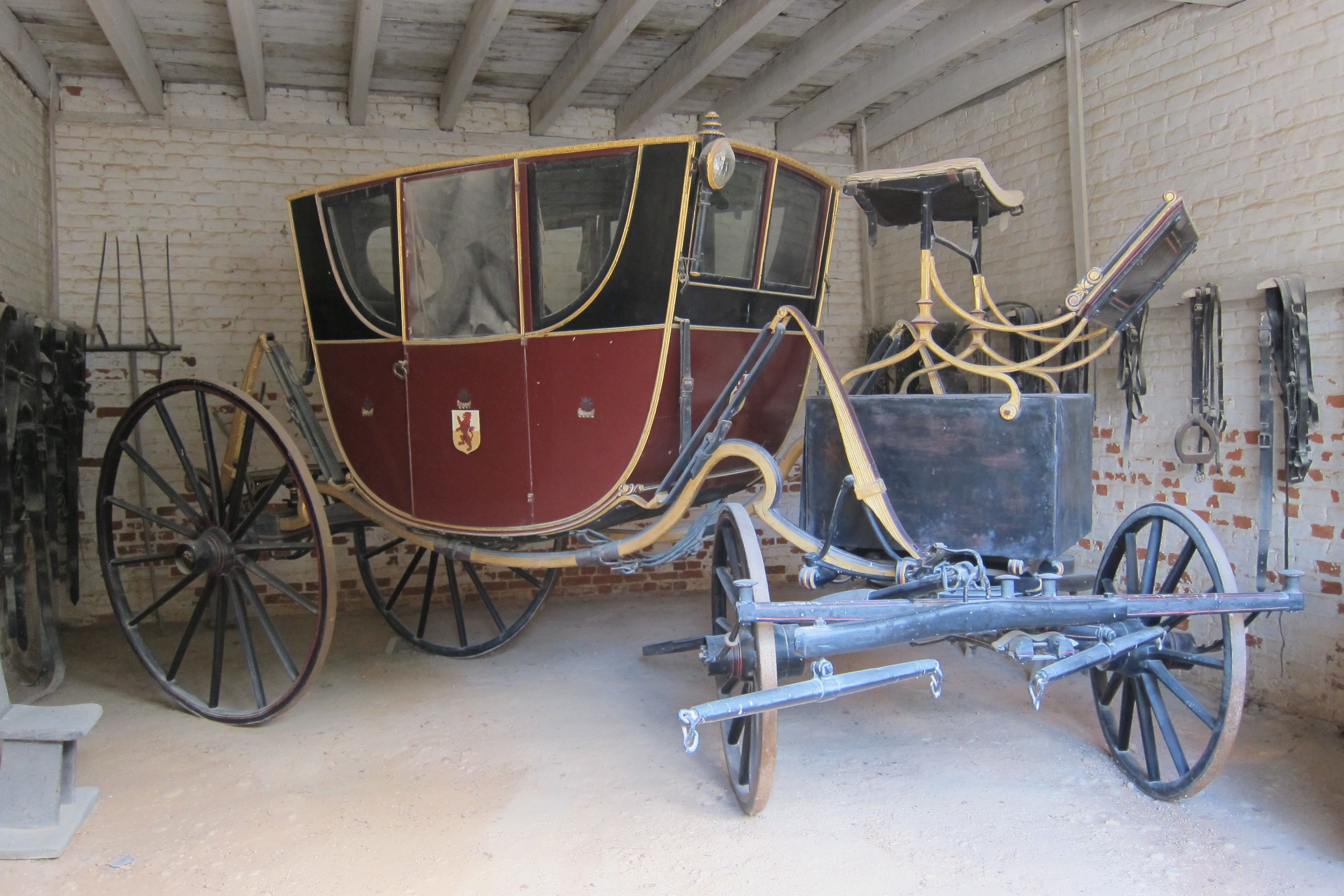 ජෝර්ජ් වොෂිංටන් පාවිච්චි කරන ලද අශ්ව කරත්තය